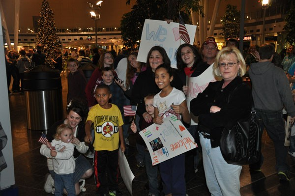 Indiana National Guard family members wait for their Soldiers to return after a 10-month deployment to Afghanistan at the Indianapolis International Airport, Dec. 14, 2011. The Guard Soldiers were part of an Operational Mentor and Liaison Team, and they partnered with Slovak soldiers to mentor and advise Afghan troops.